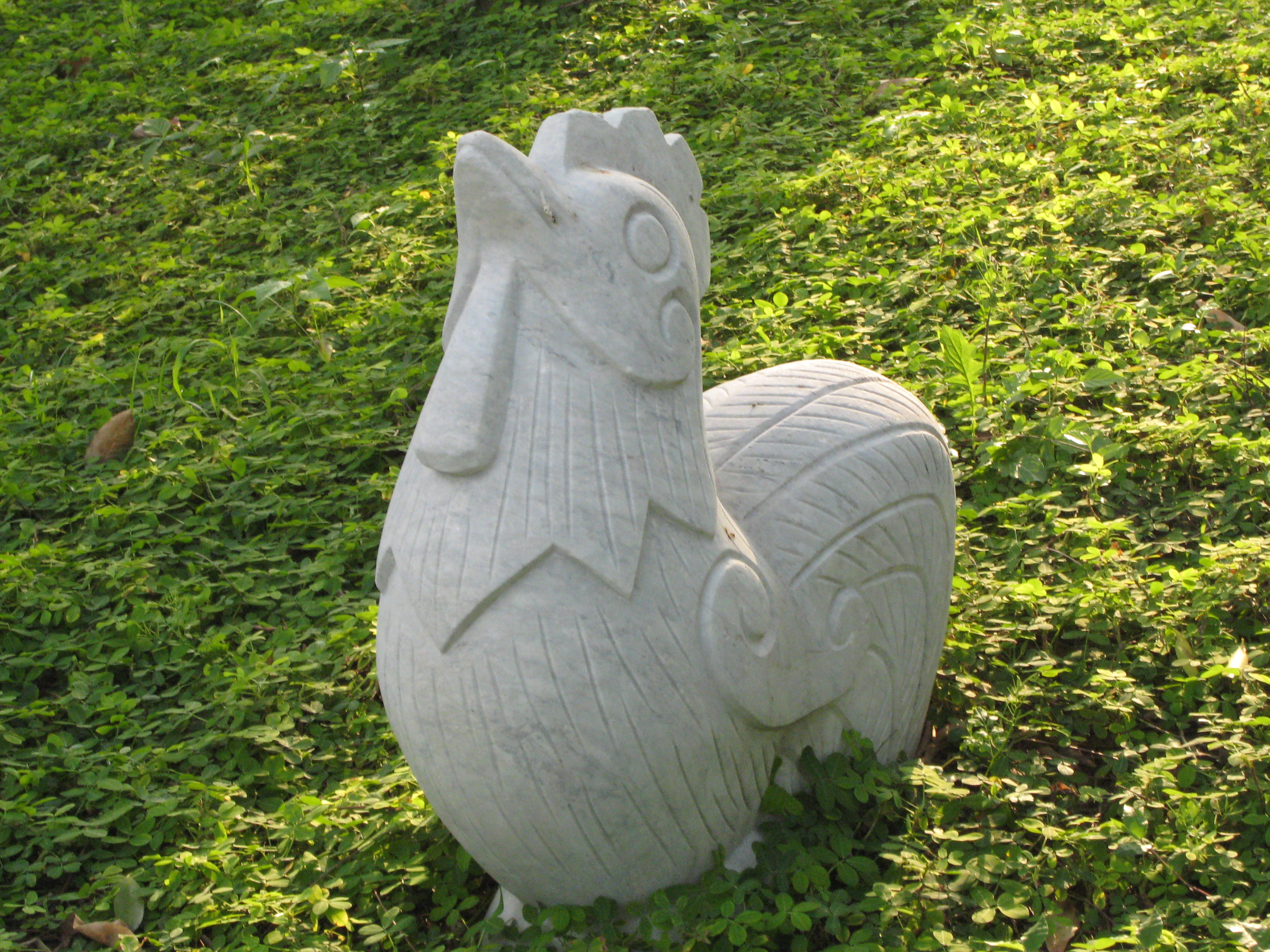 The Rooster statue is one of the 12 Chinese zodiac portrayed in the Kowloon Walled City Park in Kowloon City, Hong Kong.